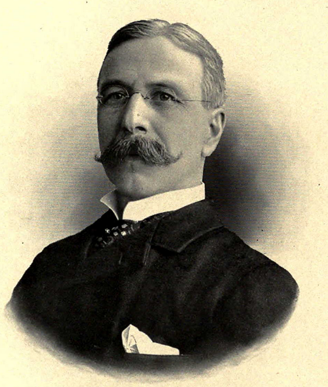 Photograph of Harry Burns Hutchins